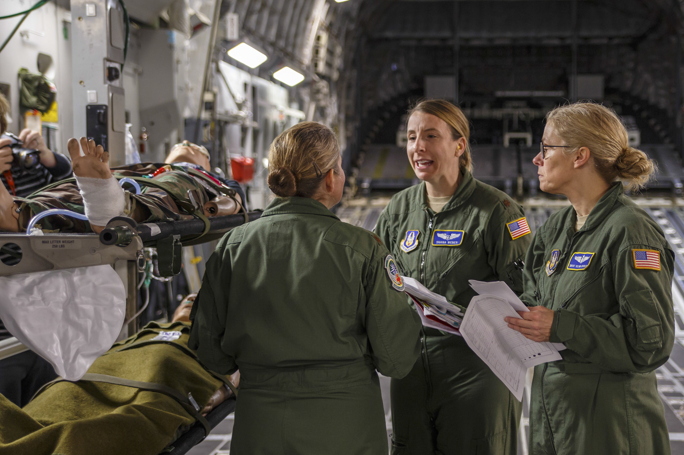 Air Force Reserve Maj. Shana Weber (center), a flight nurse with the 446th Aeromedical Evacuation Squadron here at Joint Base Lewis-McChord, goes over a training scenario with members from her team on a McChord Field C-17 Globemaster III transport aircraft during the unit's in-flight medical training, Jan. 21, 2015. The 2,100 men and women assigned to the 446th AW support the Air Mobility Command (AMC) mission around the world on a daily basis, performing 44 percent of all C-17 missions leaving JBLM. (U.S. Air Force Reserve photo by Jake Chappelle)